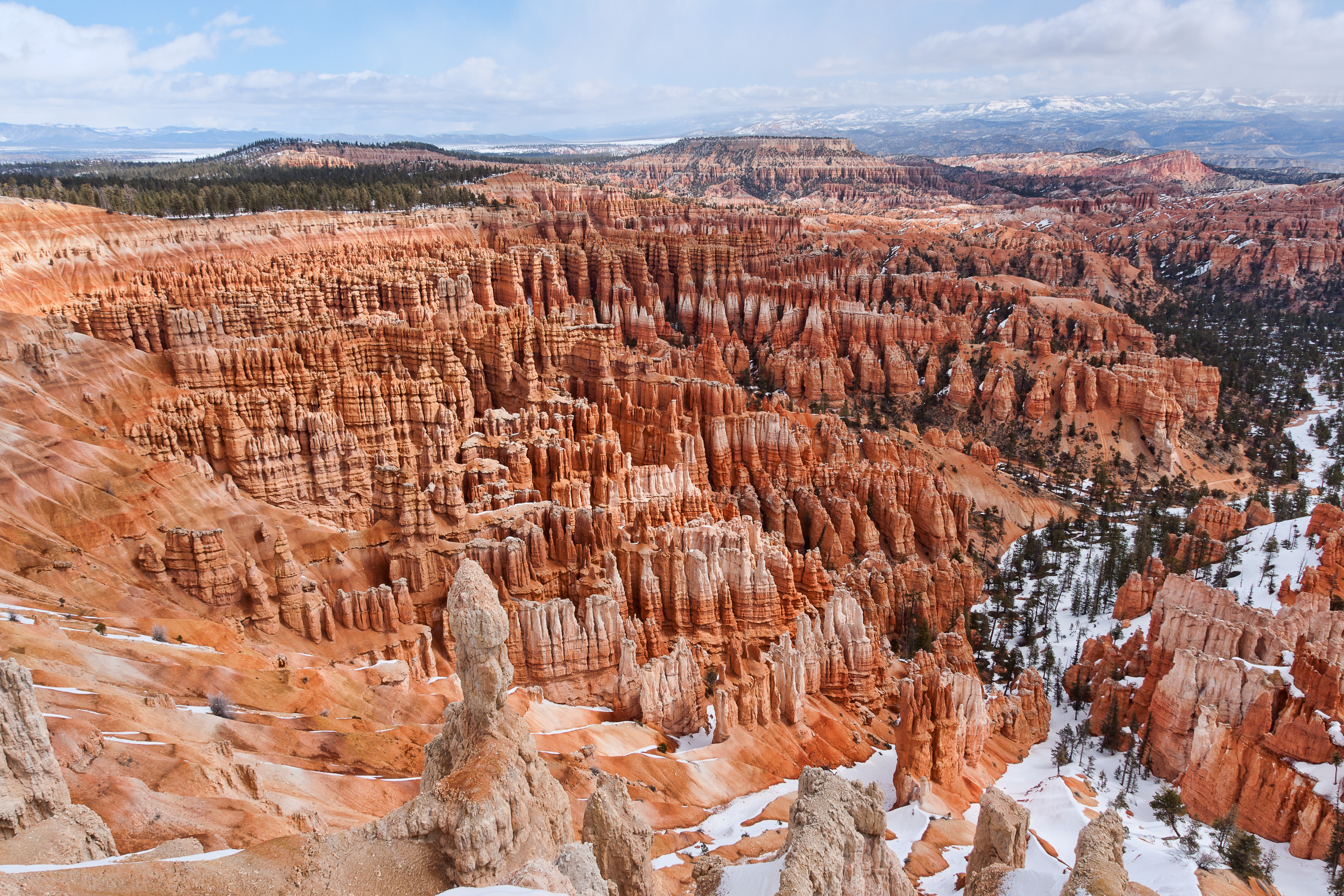 amphitheater at Bryce Canyon National Park